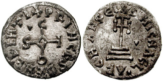 Lombards, Beneventum (nowdays Benevento. Sico. 817-832 AD. AR Denaro (1.17 g). Monogram of Sico; wedge in first quadrant Cross potent on three steps; wedge in right field, pellet in legend. Cf. MEC I 1105; CNI XVIII pg. 168, 62 var. (wedge in right field). EF, partially toned.